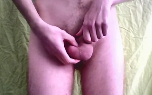 Demonstration of a 27-year-old healthy Caucasian male performing a testicular self-exam. The subject's genitals are in a non-aroused flaccid state. In the exam, the subject first balances both testicles to compare their weights. He then gently rolls each individual testicle between thumb and fingers to locate any soreness, lumps, hardness, swelling, or other abnormalities. He then checks the epididymis attached to each testicle for swelling, soreness, or other abnormalities. This process should be performed at least once a month on all pubescent and post-pubescent males, ideally during or after a warm shower when the scrotum is loose and the testicles are low. PLEASE NOTE: I am not a licensed medical professional, and this photo and description should only be considered an amateur example of this procedure. The Wikipedia page for TSEs contains links to professional descriptions and demonstrations.